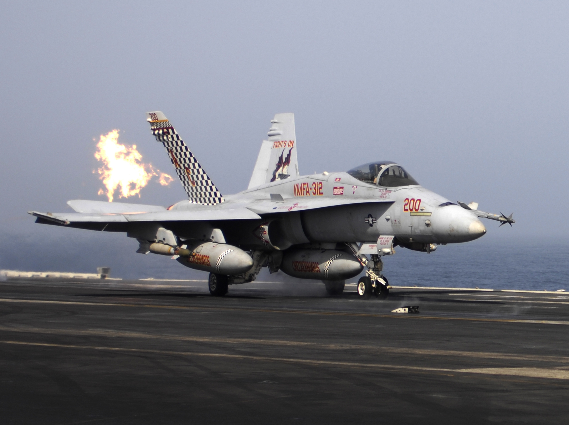 A U.S. Marine Corps McDonnell Douglas F/A-18C Hornet assigned to Marine Fighter Attack Squadron (VMFA) 312 "Checkerboards", ignites afterburners during a launch from the aircraft carrier USS Harry S. Truman (CVN-75) in the Arabian Sea. The Harry S. Truman Carrier Strike Group was supporting maritime security operations and theater security cooperation efforts in the U.S. 5th Fleet area of responsibility.